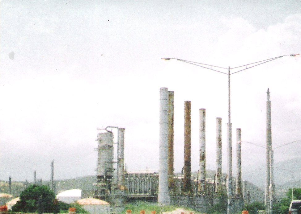 Picture of abandoned CORCO refinery in Guayanilla Puerto Rico